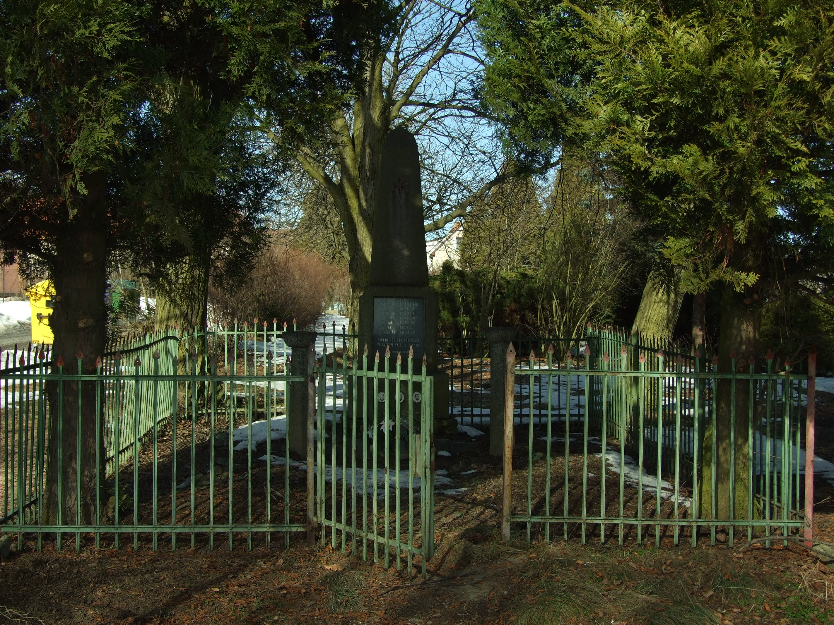 Village Zahořany near the town of Mníšek pod Brdy in Central Bohemian Region, CZ